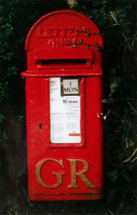 A Georgian lamp box at Tal-y-llyn Lake, Wales. Taken by User:Stemonitis in 2003.